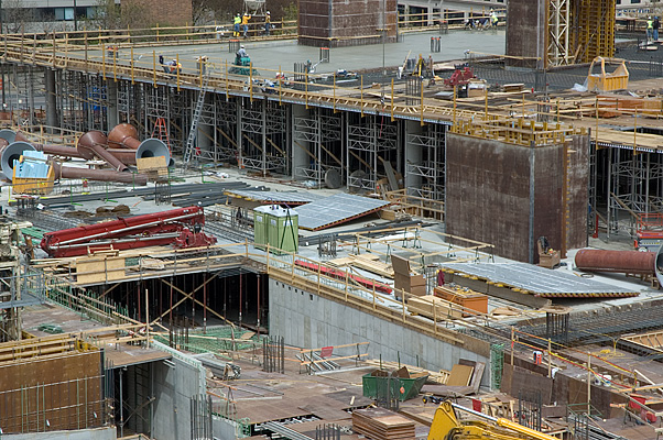 Shot in downtown Minneapolis, Minnesota on April 29, 2004.